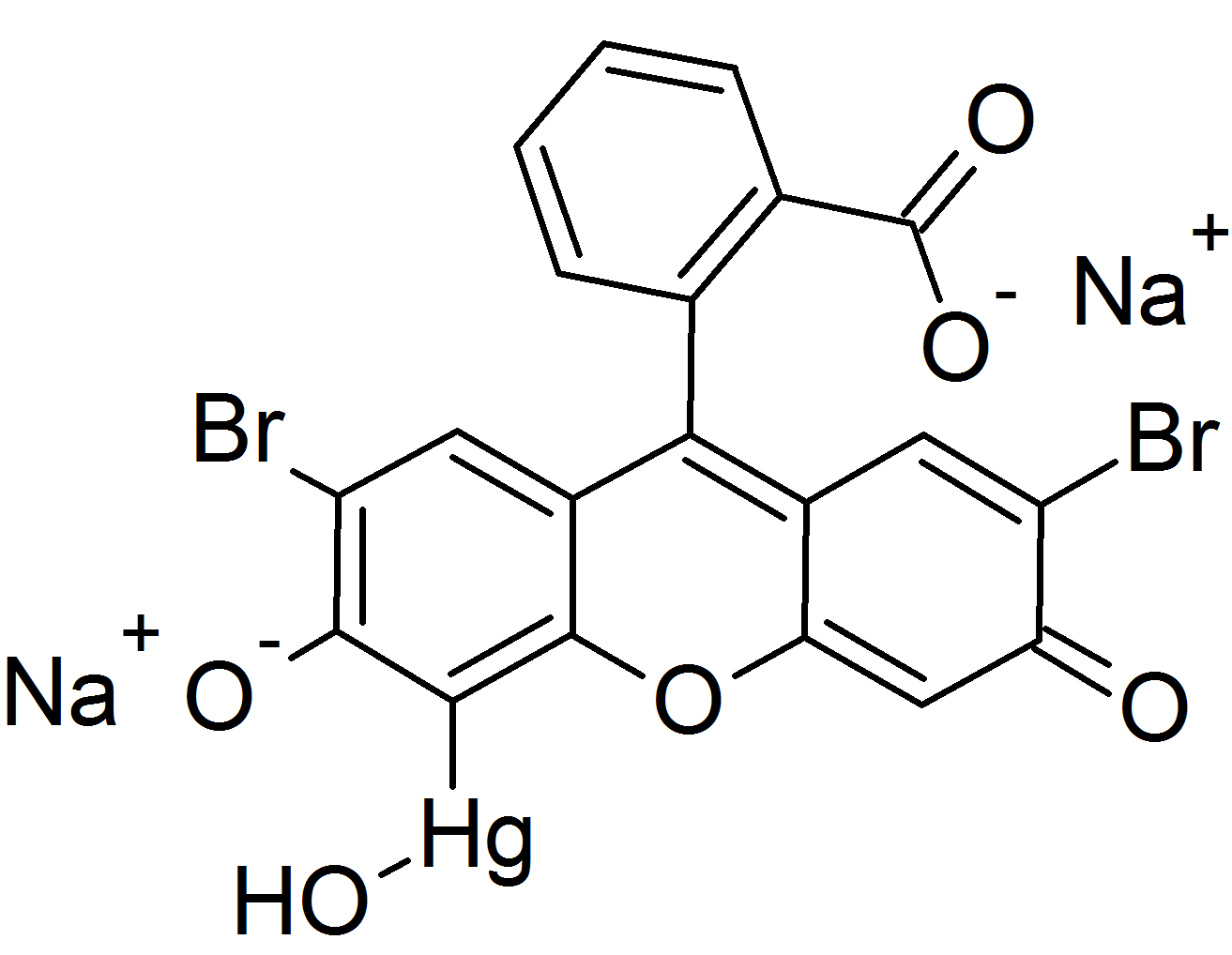 Structure of Merbromin